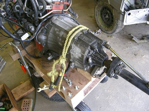 Volvo M90 gearbox. I made this picture myself